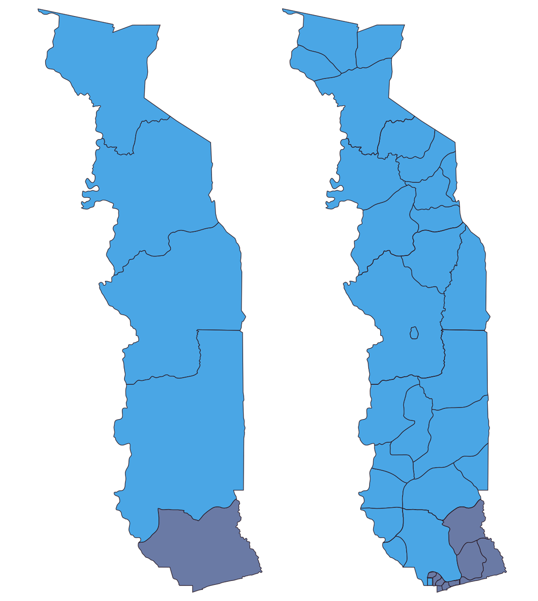 Togo 2020 Presidential Election Results Map